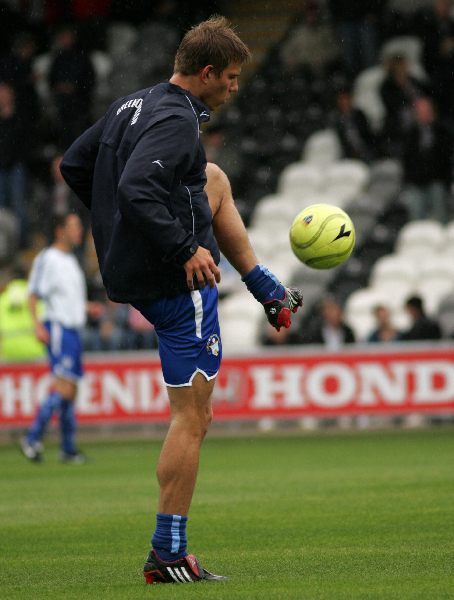 Greenock Morton (1) vs (2) St Mirren - Renfrewshire Cup Final 09'